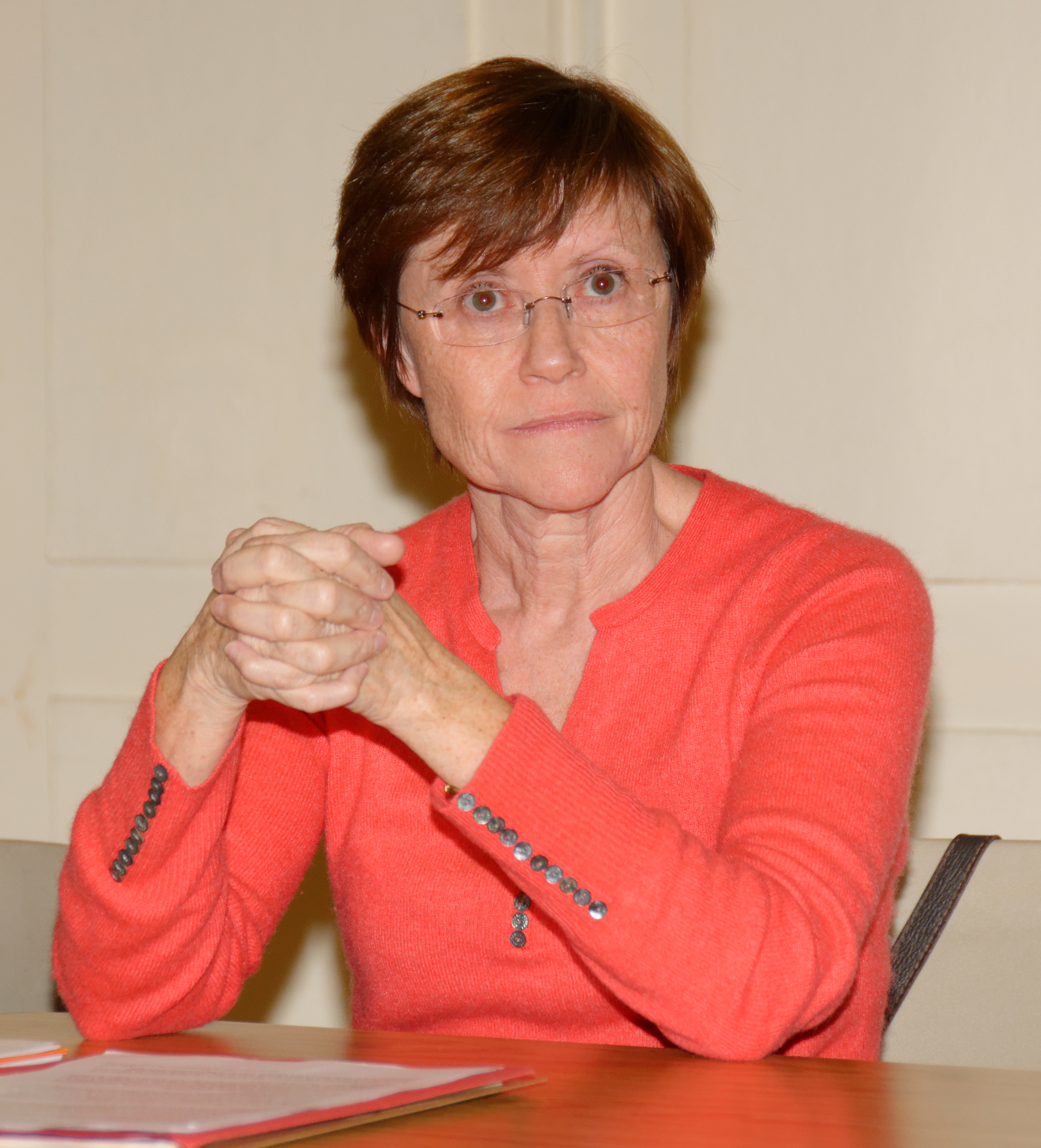 Personality rights warningAlthough this work is freely licensed or in the public domain, the person(s) shown may have rights that legally restrict certain re-uses unless those depicted consent to such uses. In these cases, a model release or other evidence of consent could protect you from infringement claims.